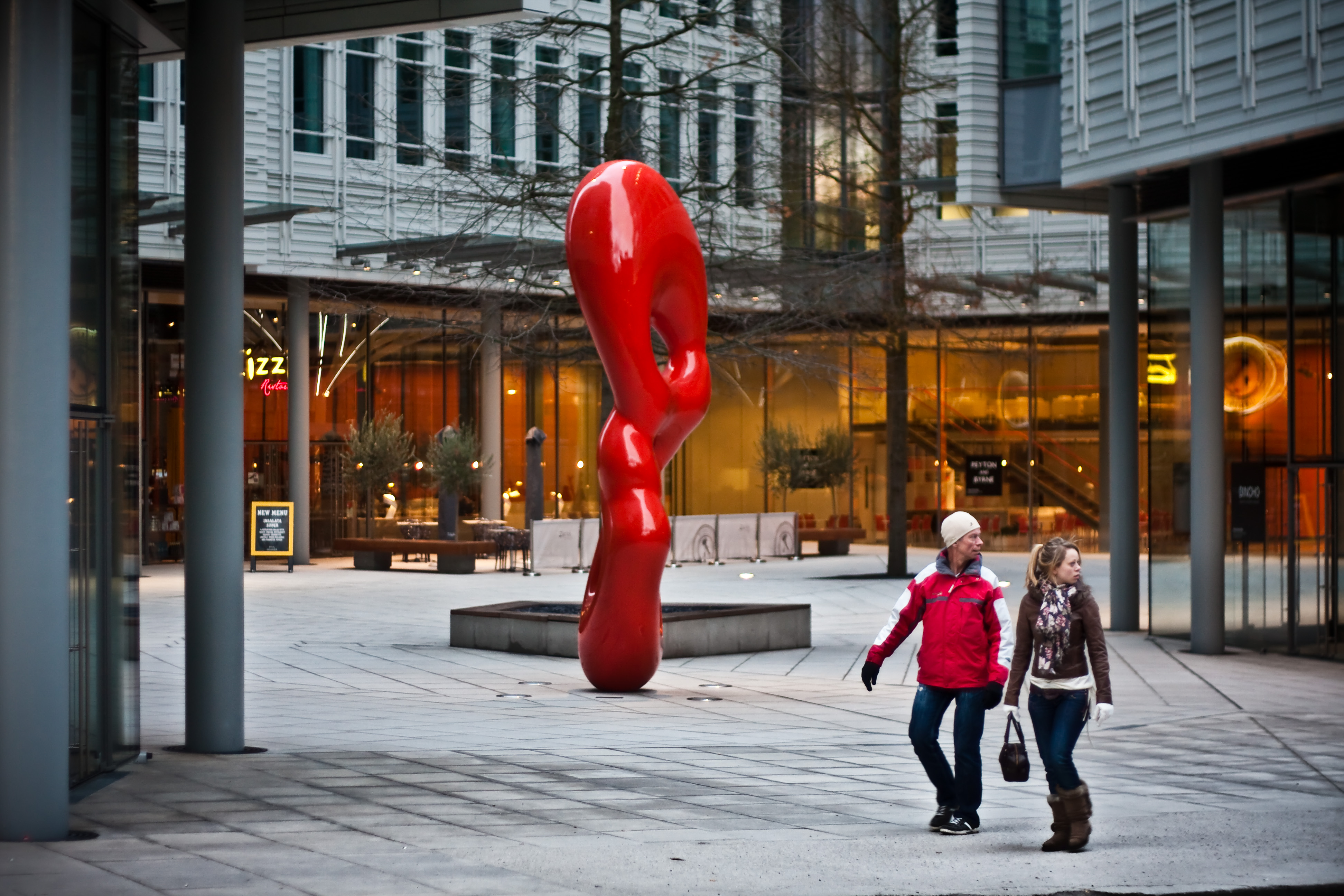 Interior courtyard of Central Saint Giles in London.